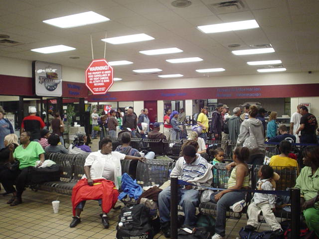 Inside Greyhound Bus Station in Atlanta, Georgia, United States.